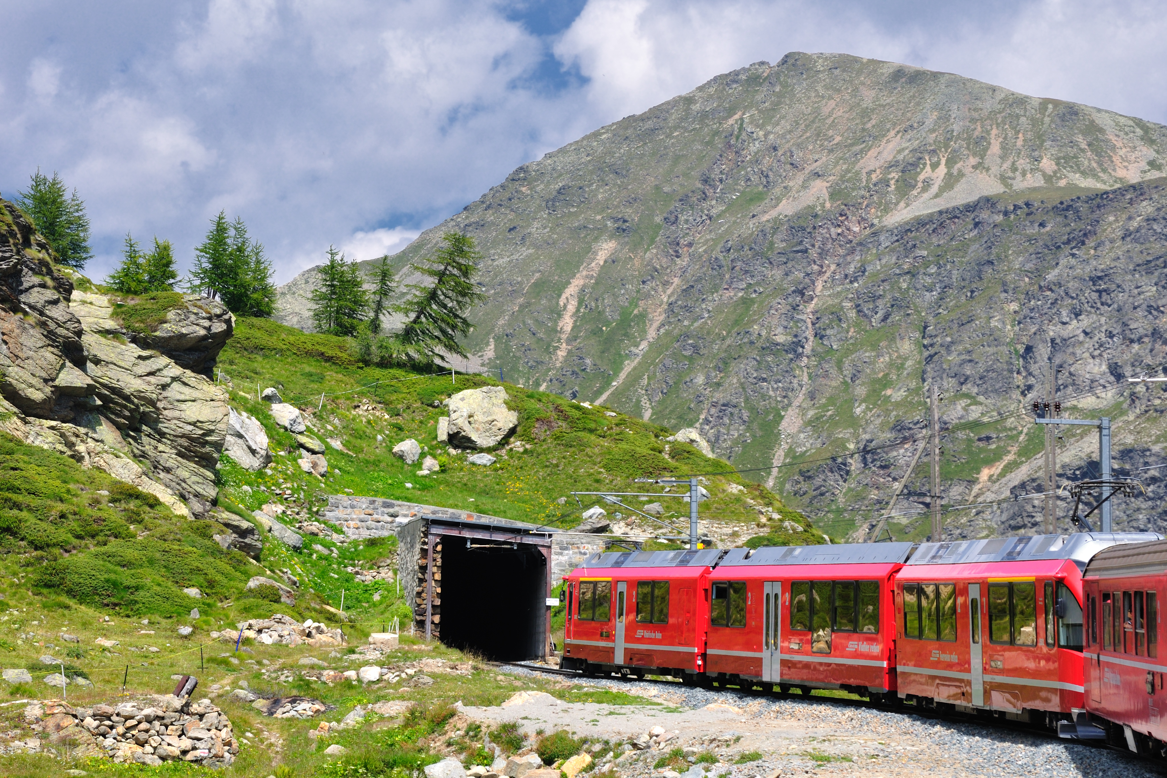 Switzerland, Graubünden, one of the new ABe 8/12's entering Galleria Lunga on the South side of Bernina pass